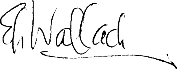 Eli Wallach's signature